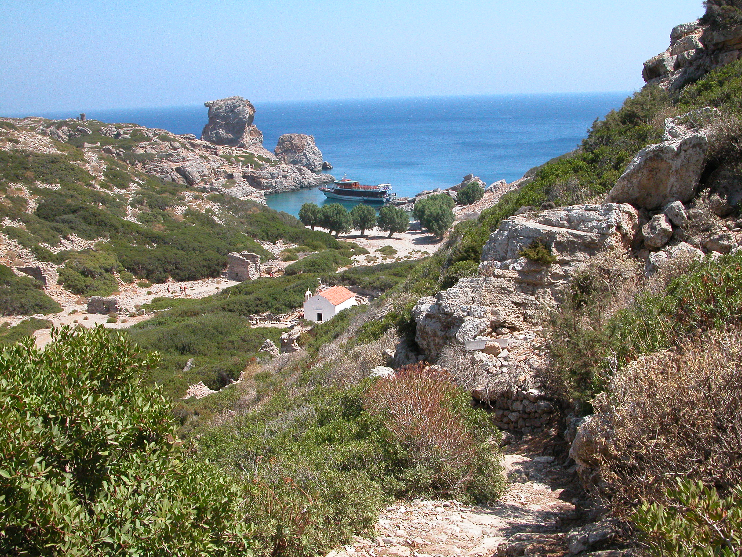 This is a photography of Natura 2000 protected area with ID GR4210003